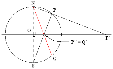 Illustration for deriving the relations between a stereographic projection and a circle inversion of a plane.